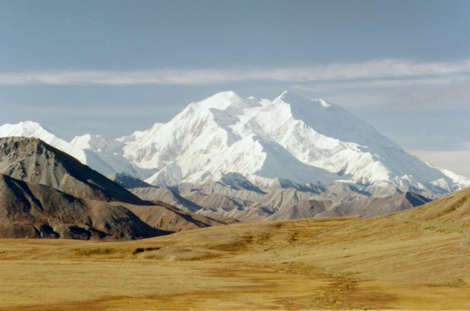 10-10-23: mount mckinley